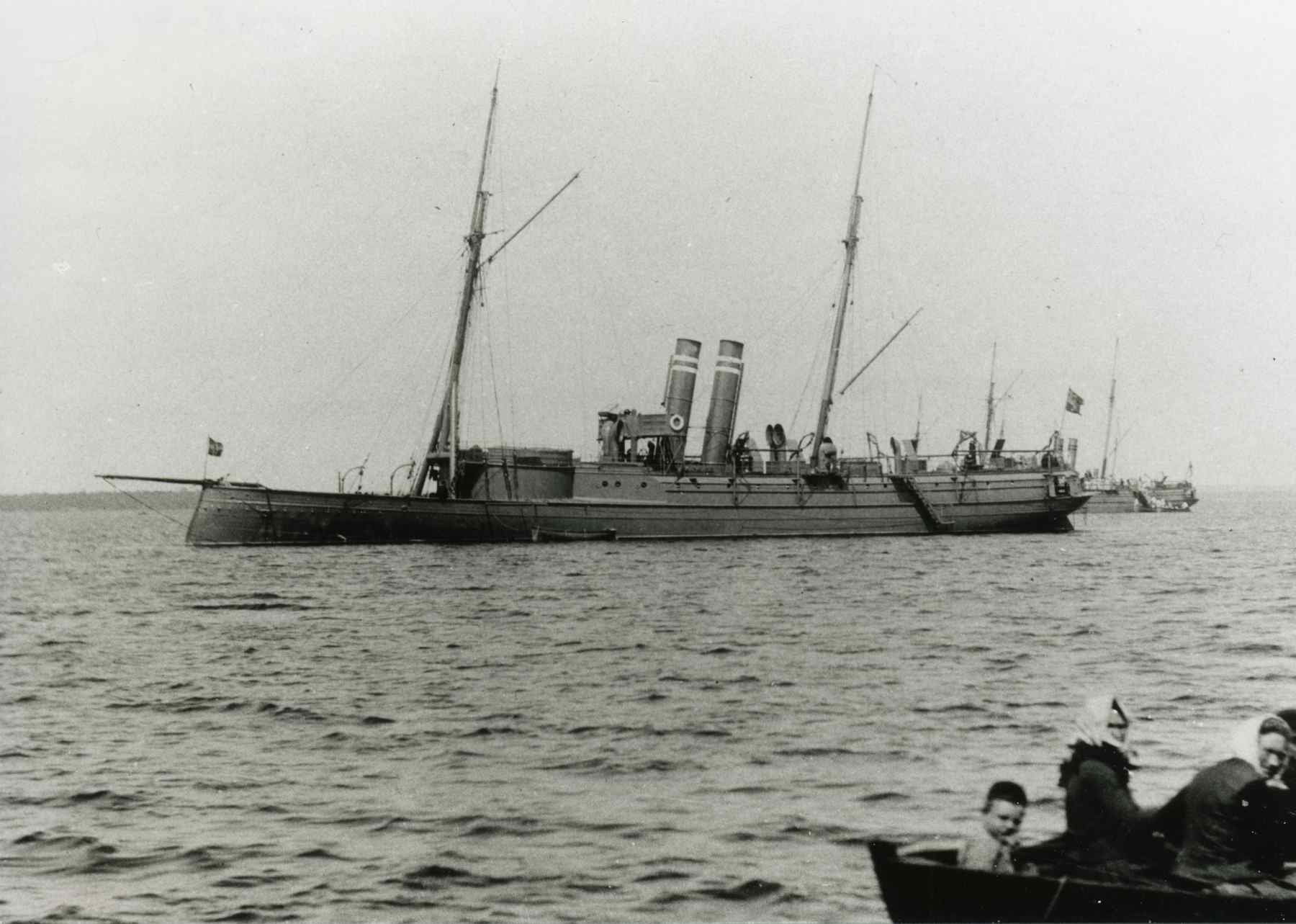 The Swedish gunboat HMS Rota, 1895. From Curt S. Ohlsson's collections.